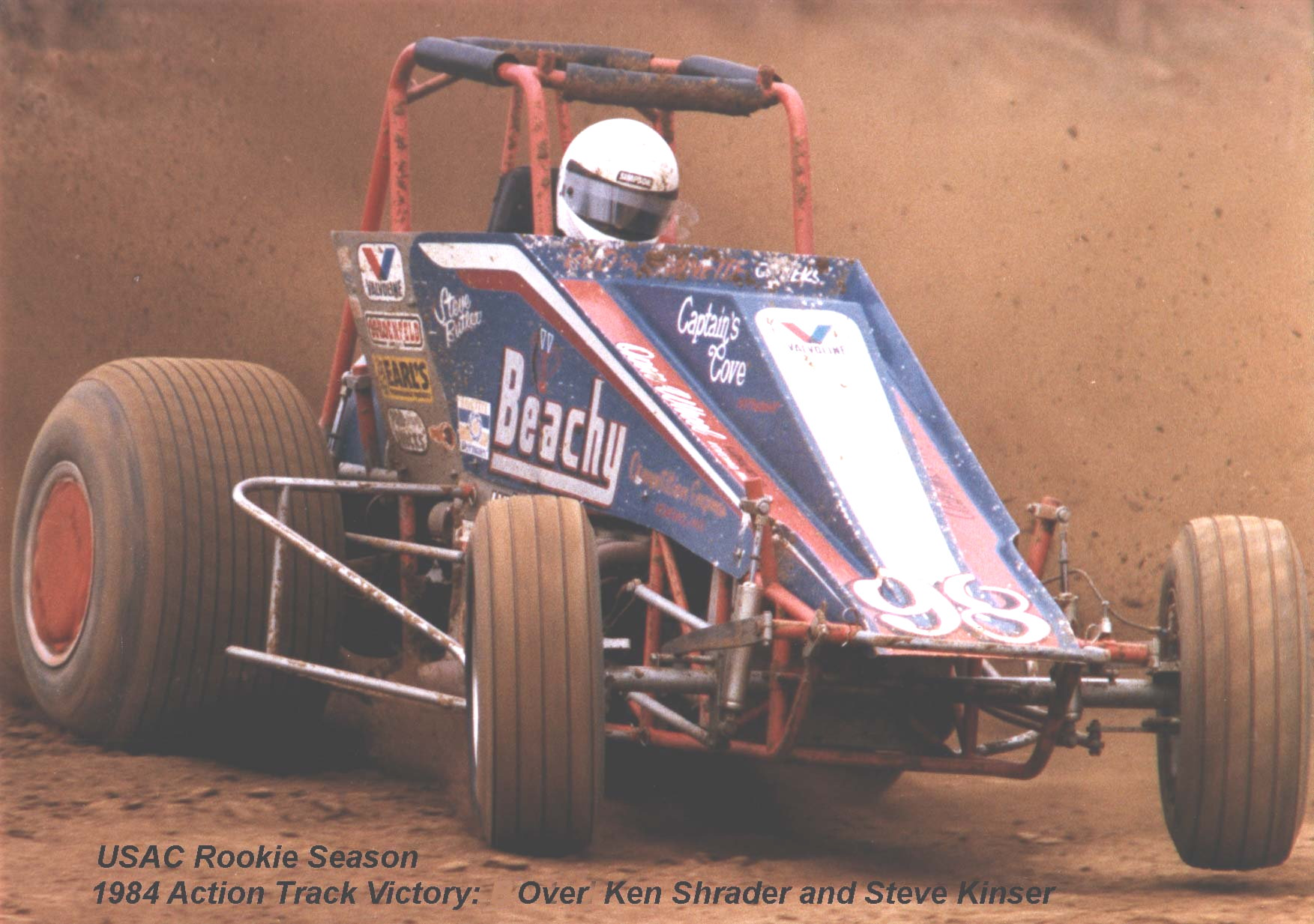 Steve Butler driving the Beachy sprinter in USAC competition at the Terre Haute (IN) Action Track in 1984. Bud Whitacre is the car owner